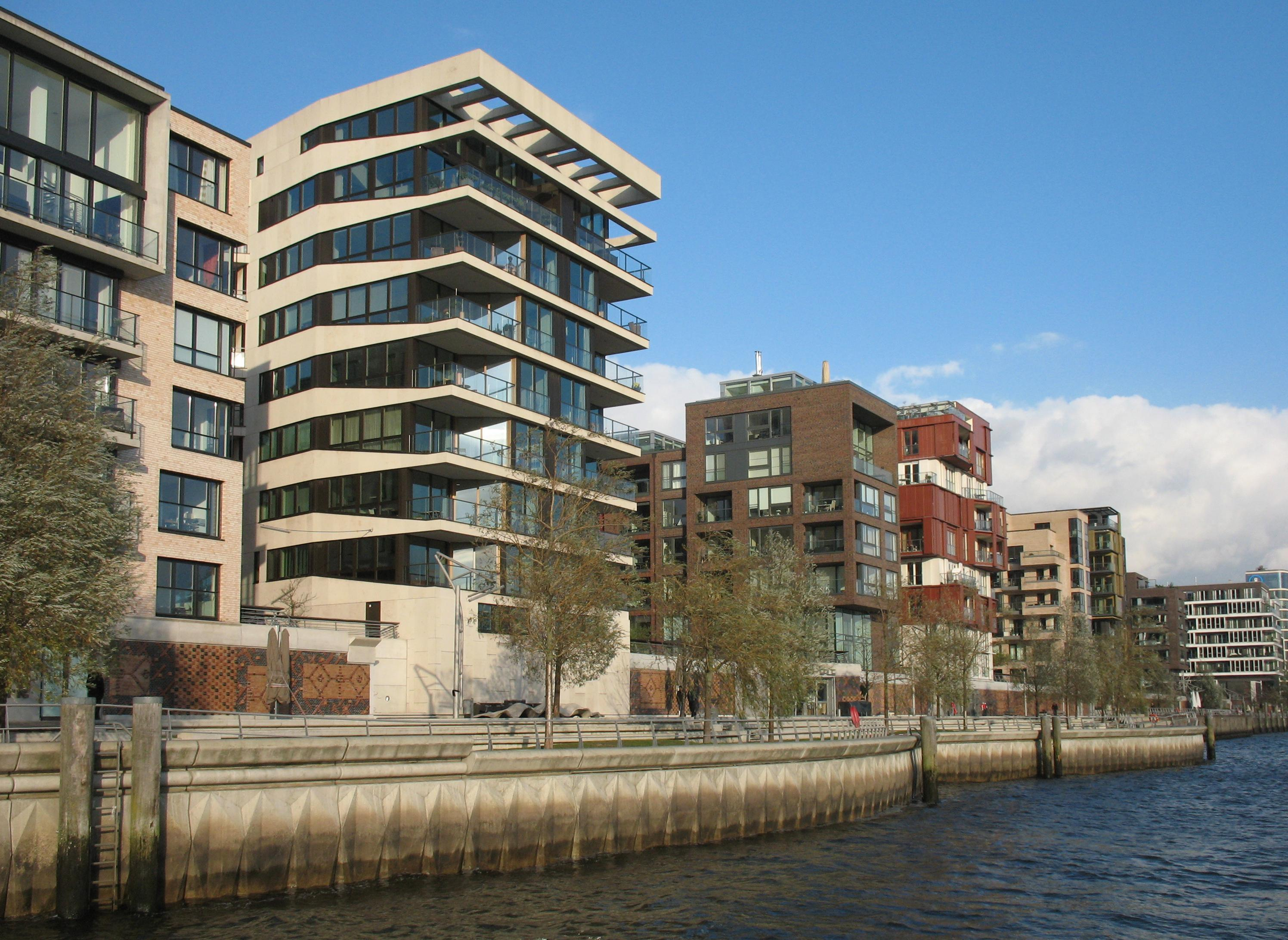 "Dalmannkai" in Hamburg-HafenCity, Germany